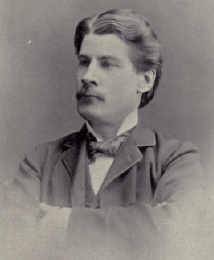 Philippe-Auguste Choquette